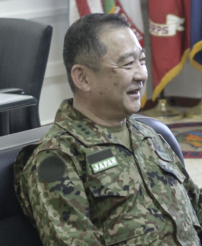 Lt. Gen. Goro Yuasa, vice chief of Staff of the Japan Ground Self-Defense Forces.